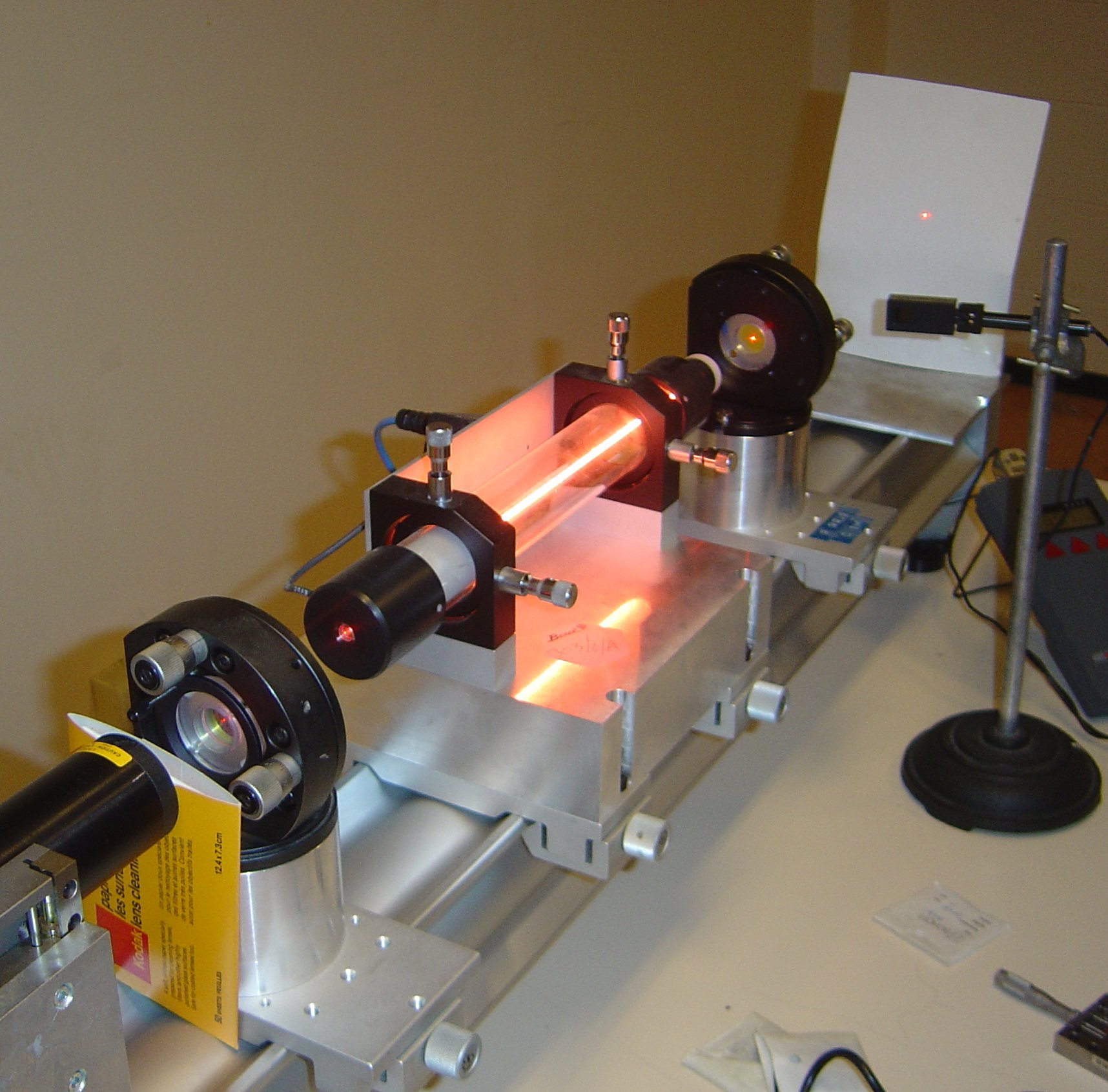 Helium-Neon laser demonstration at the Kastler-Brossel Laboratory at Paris VI: Pierre et Marie Curie. The glowing ray in the middle is a discharge tube (akin to that of a neon light), it is not the laser beam. The laser beam crosses the air and marks a red point on the screen to the right.